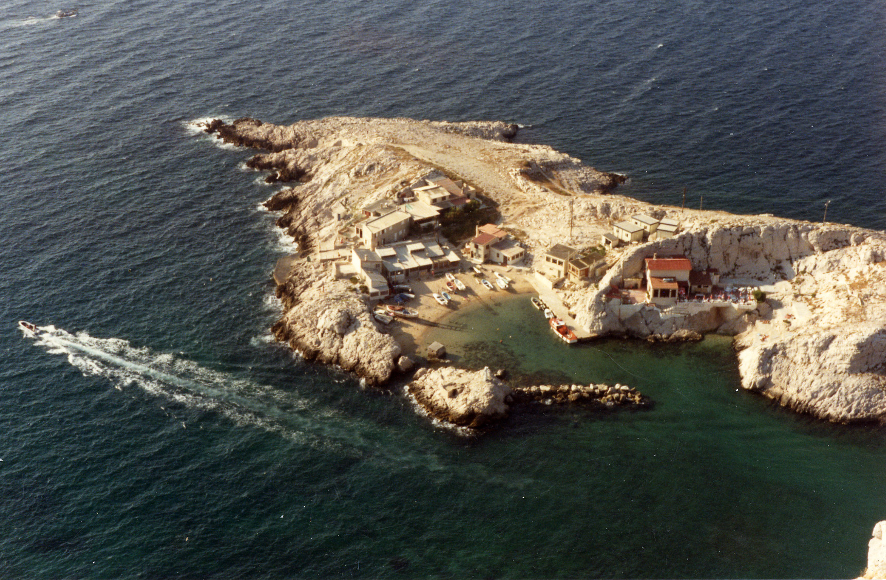 Cap Croisette, Marseille, taken from Maïre island